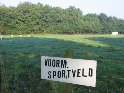 Former soccer field of Elper Boys